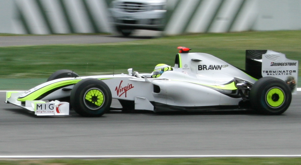 Brawn.GP.2.Spain.09